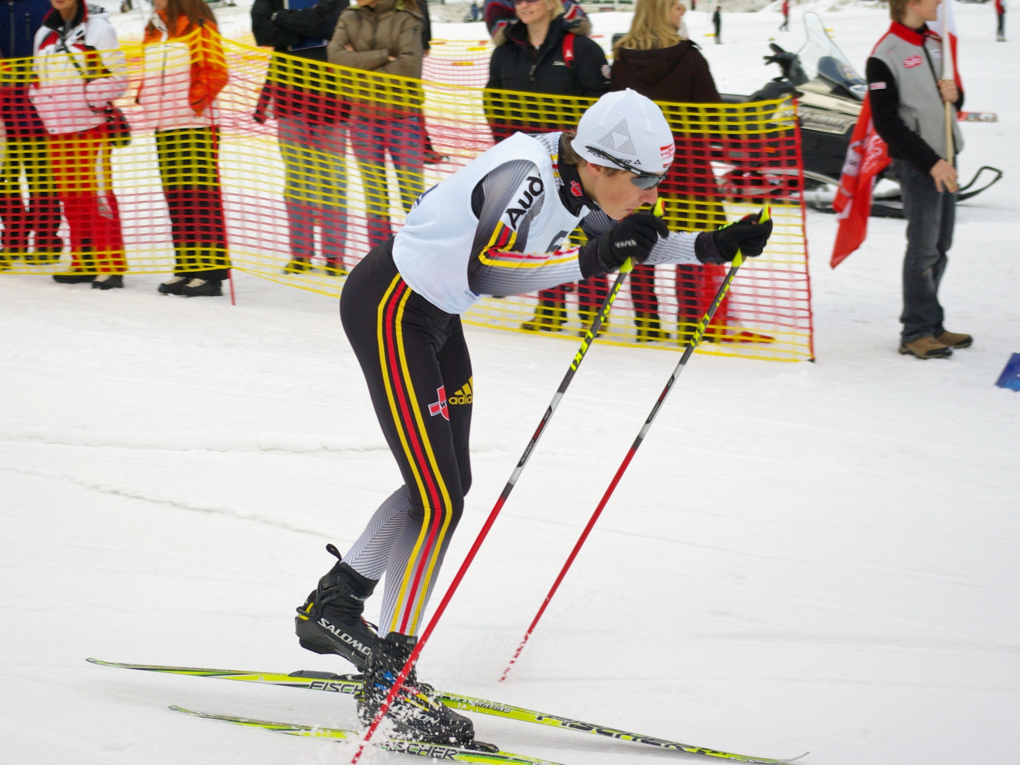 German nordic combined skier Johannes Rydzek during the World Cup B sprint event in Eisenerz (Austria) on 9 March 2008.